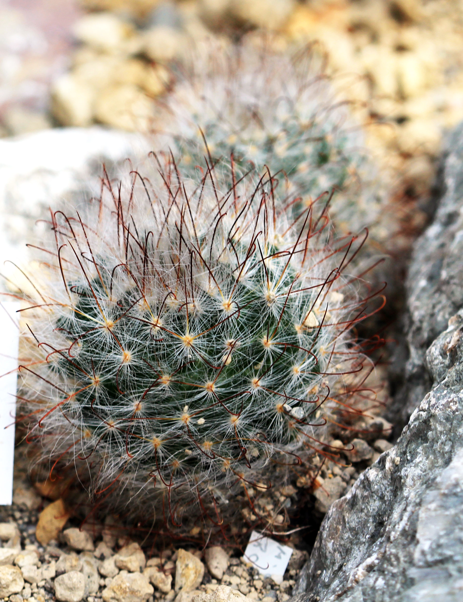 Cactus Mammillaria guelzowiana, The Botanical Gardens of Charles University, Prague, Czech Republic